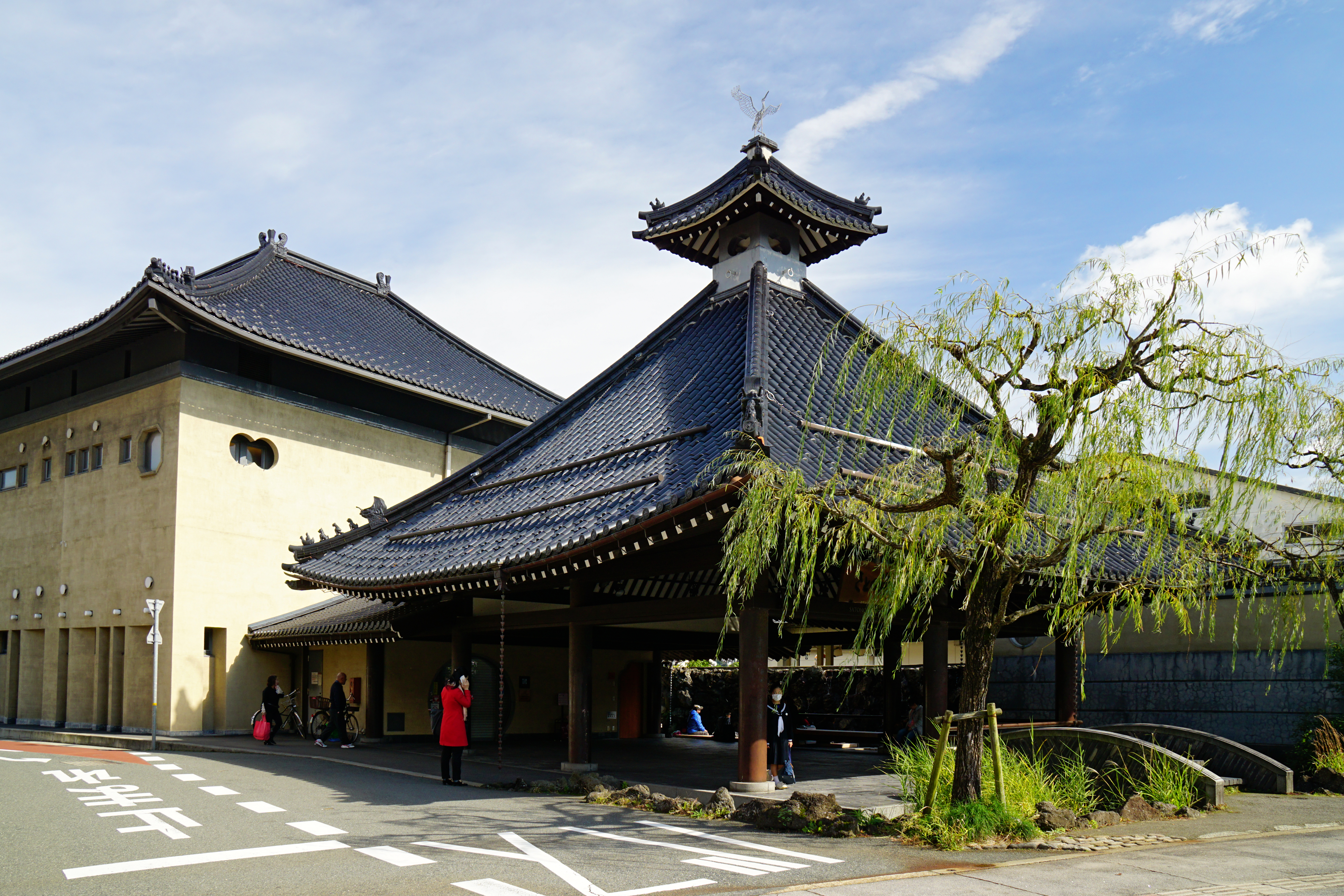 At Kinosaki Onsen in Toyooka, Hyogo prefecture, Japan.